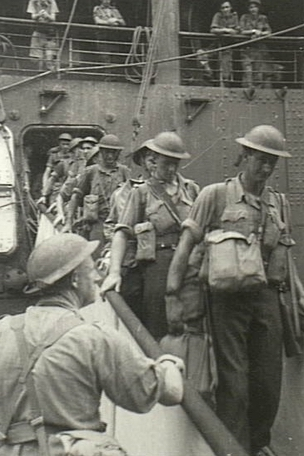 Australian troops disembarking from the troopship Orcades in Batavia in February 1942